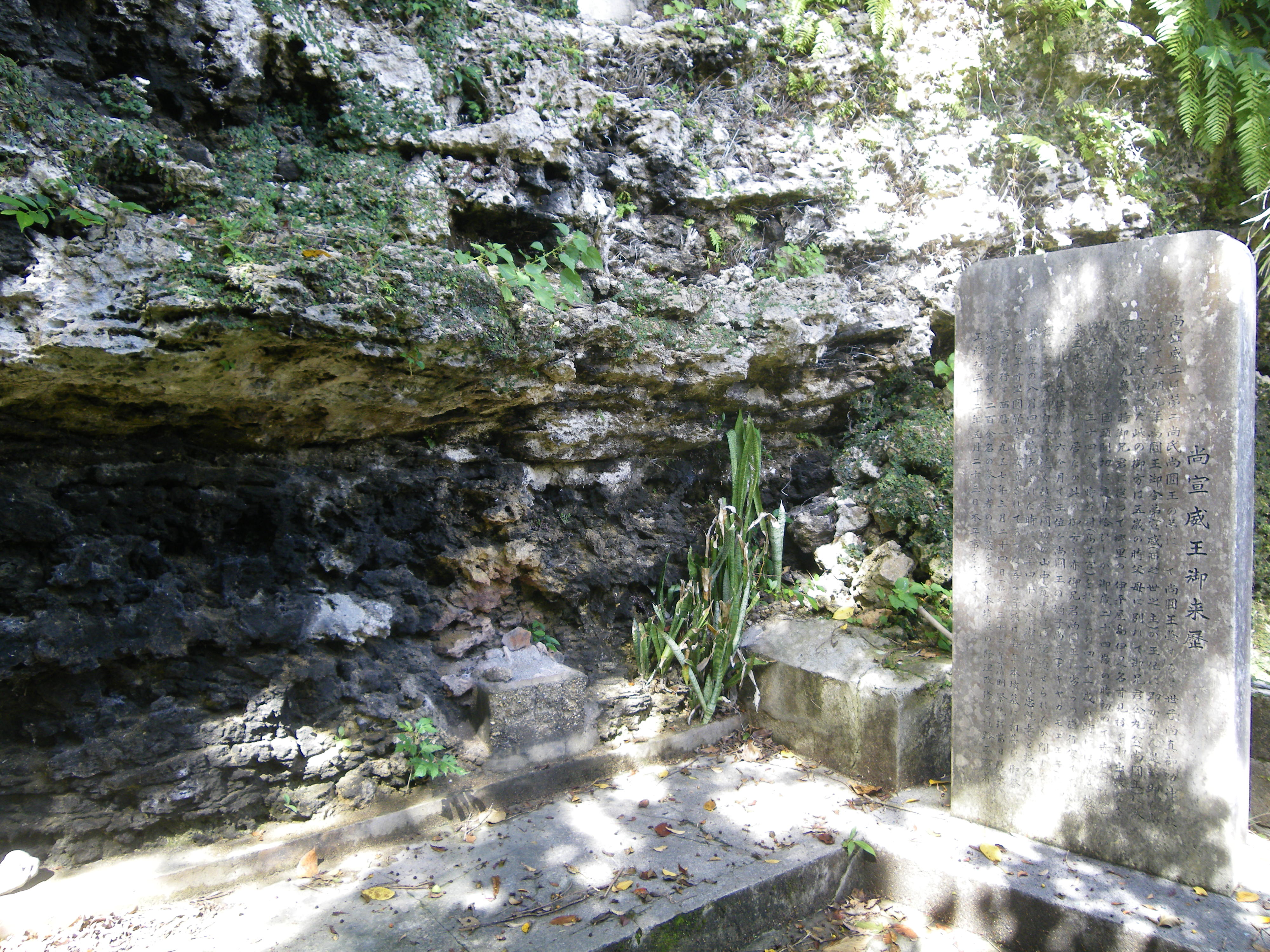 Mausoleum of King Shō Sen'i, the second of the line of the Second Shō Dynasty